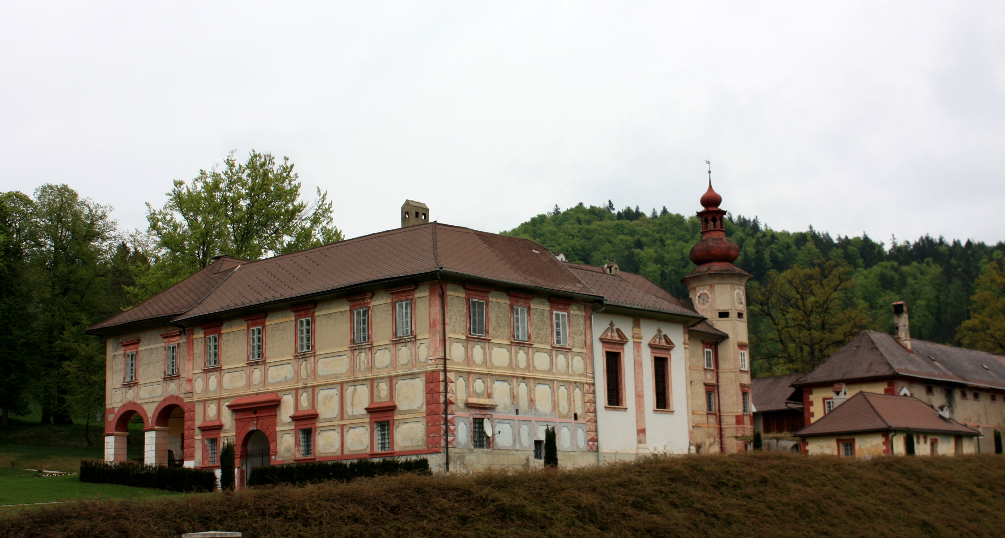 Meisselberg castle in the community of Maria Saal